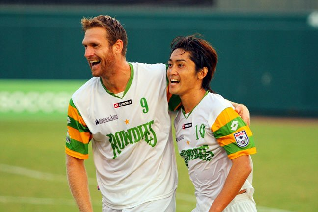 Daniel Antoniuk and Tsuyoshi Yoshitake in 2012 Tampa Bay Rowdies home uniforms.